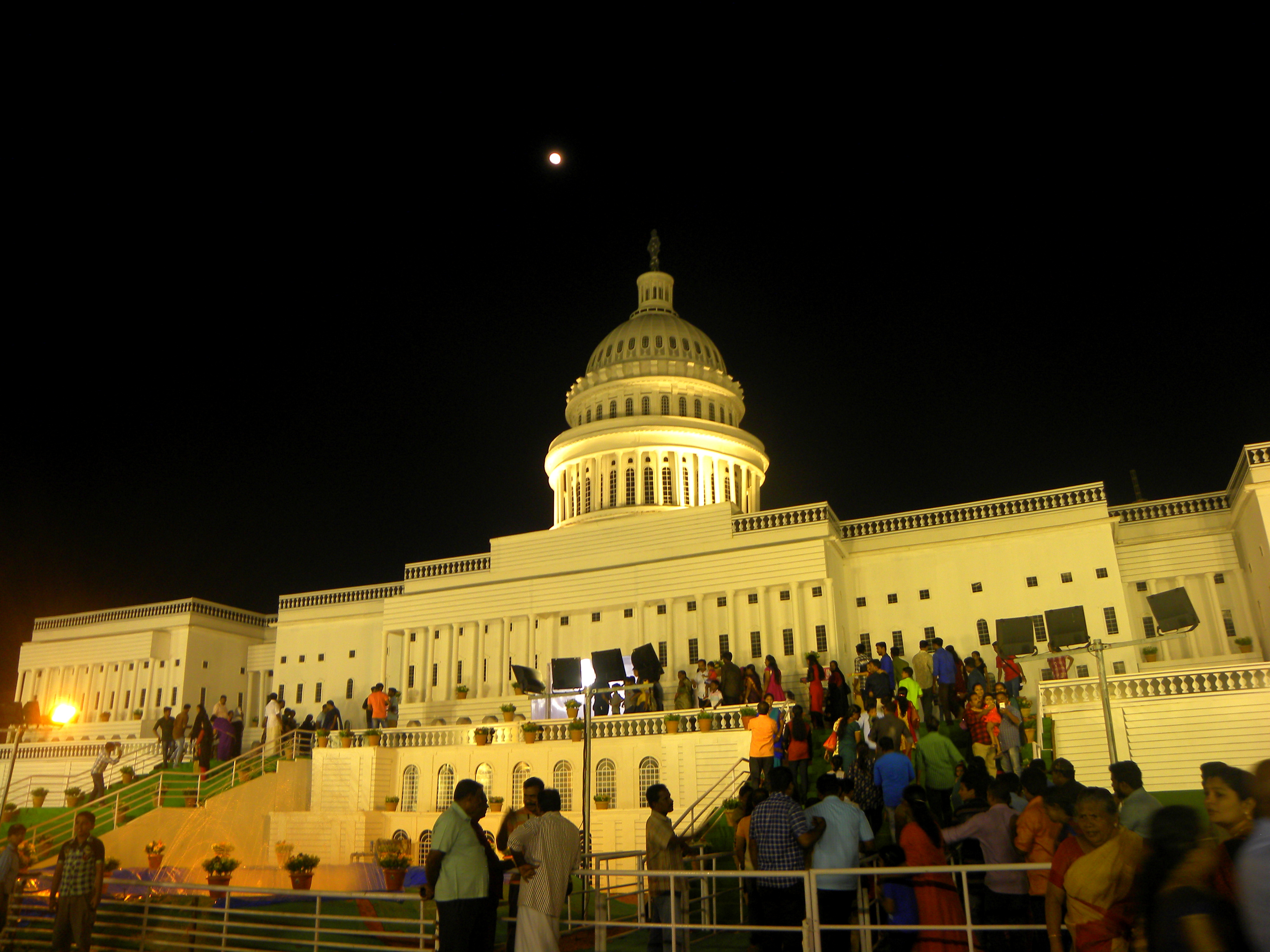 Kollam Fest is the largest festival organized by Kollam Municipal Corporation in Kollam city.